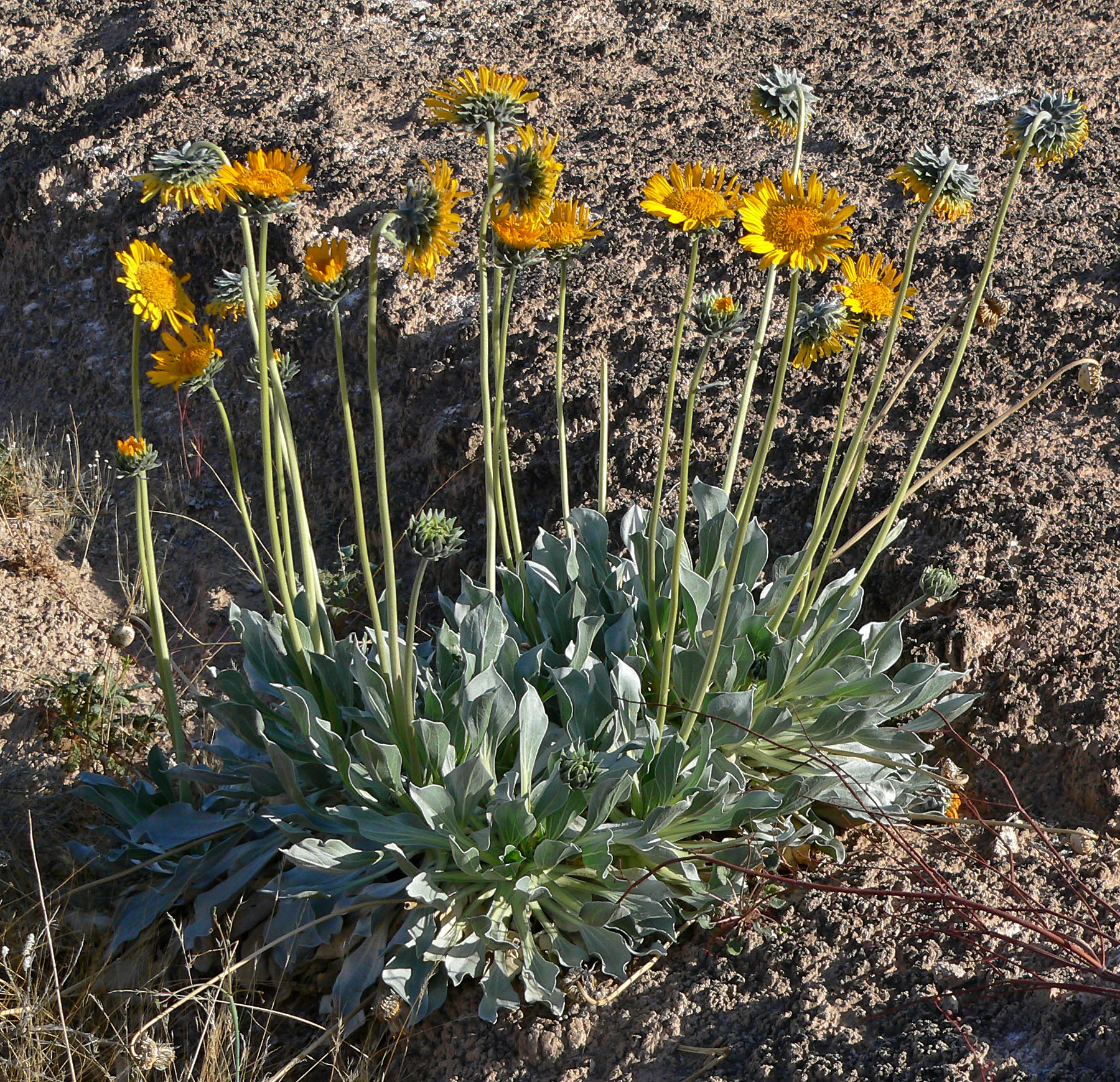 Enceliopsis argophylla off Northshore Drive near Valley of Fire junction, Lake Mead National Recreation Area, southern Nevada